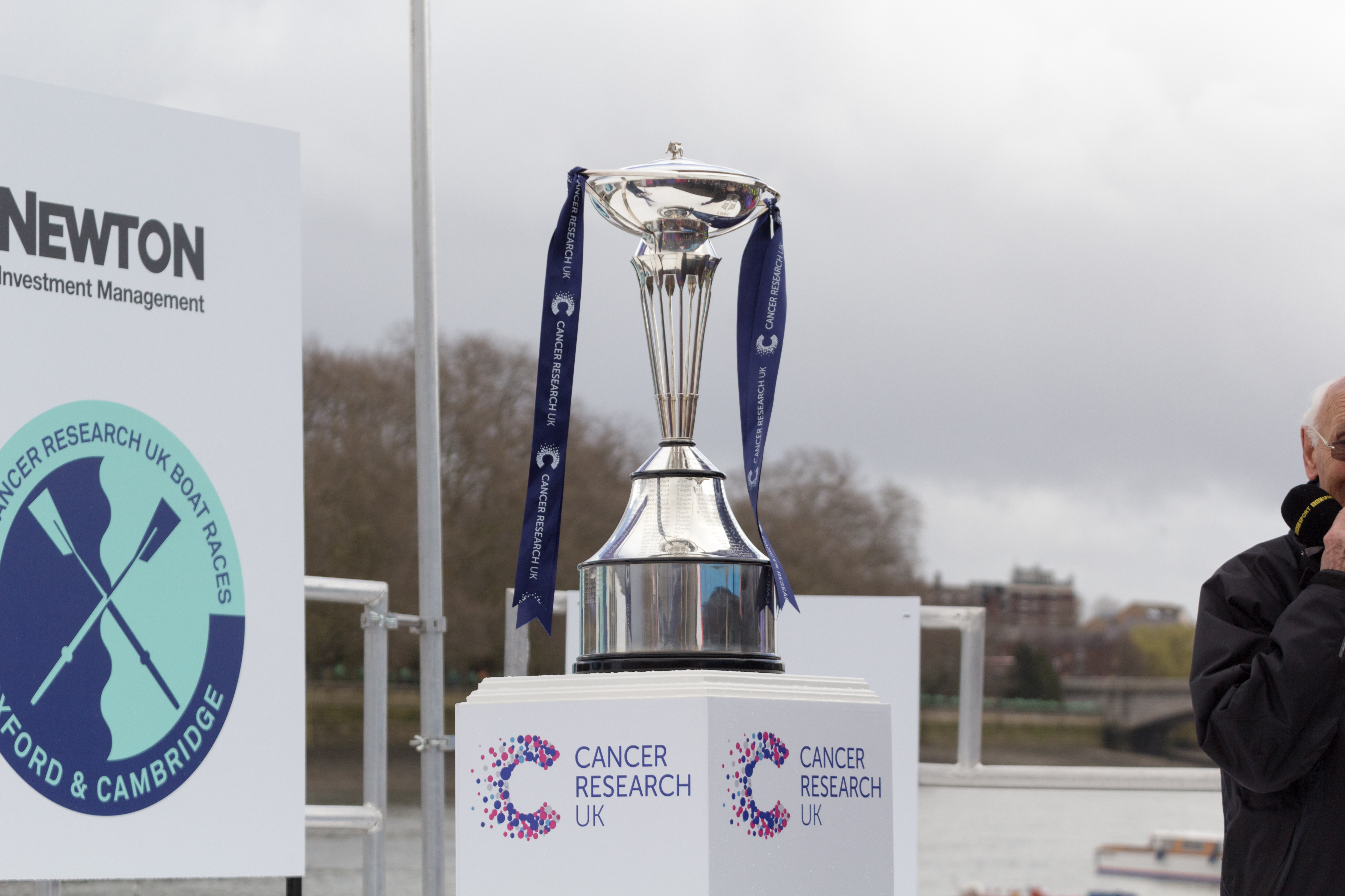 The trophy for The Boat Race, shown here before the 2016 race.